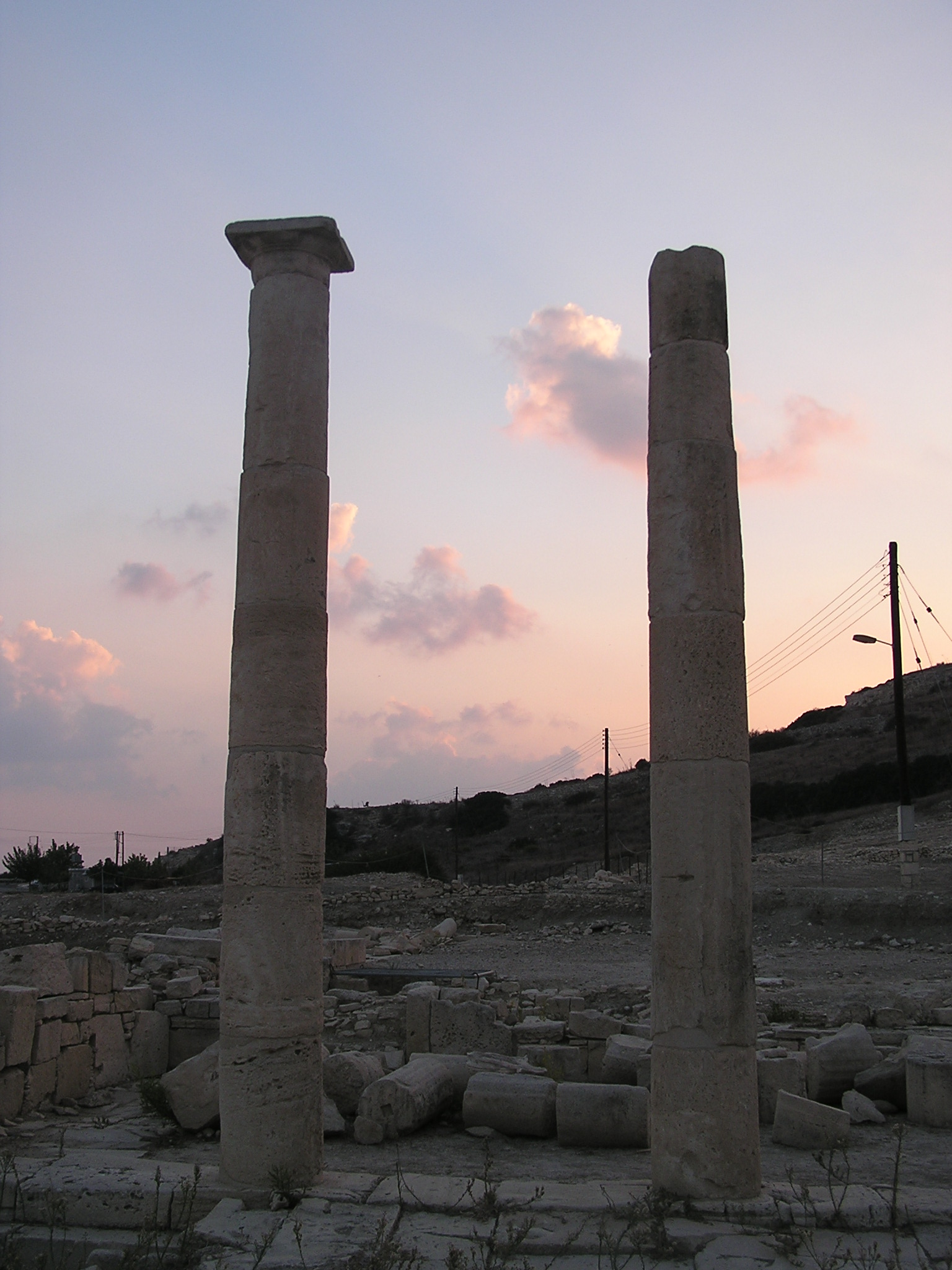 Taken in ancient Amathus (Cyprus). October 2005